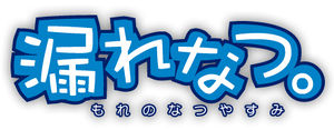 Vector made on Photoshop